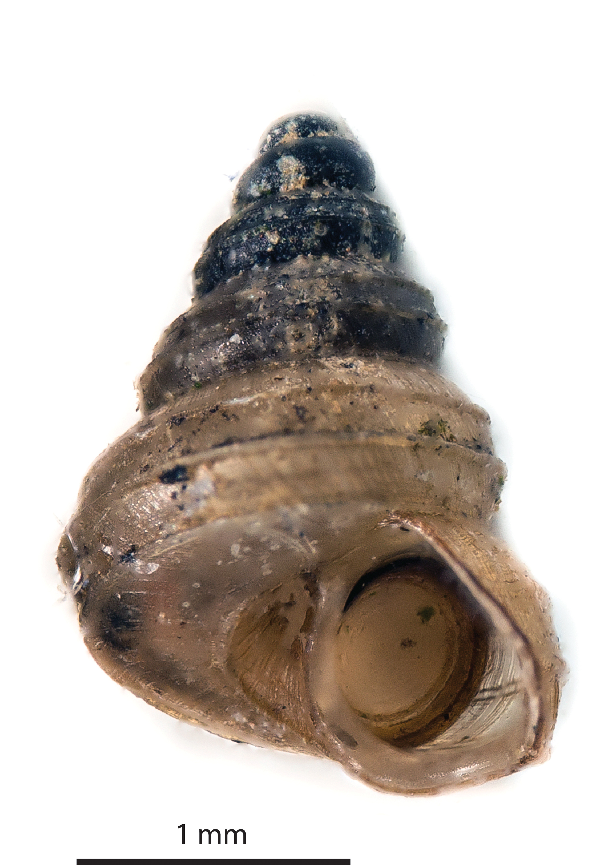 A shell of Craspedotropis gretathunbergae